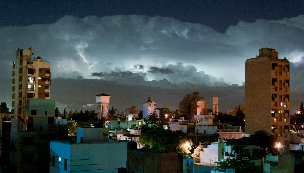 Thunderstorm over Nueva Cordoba neighborhood. Cordoba, Argentina.